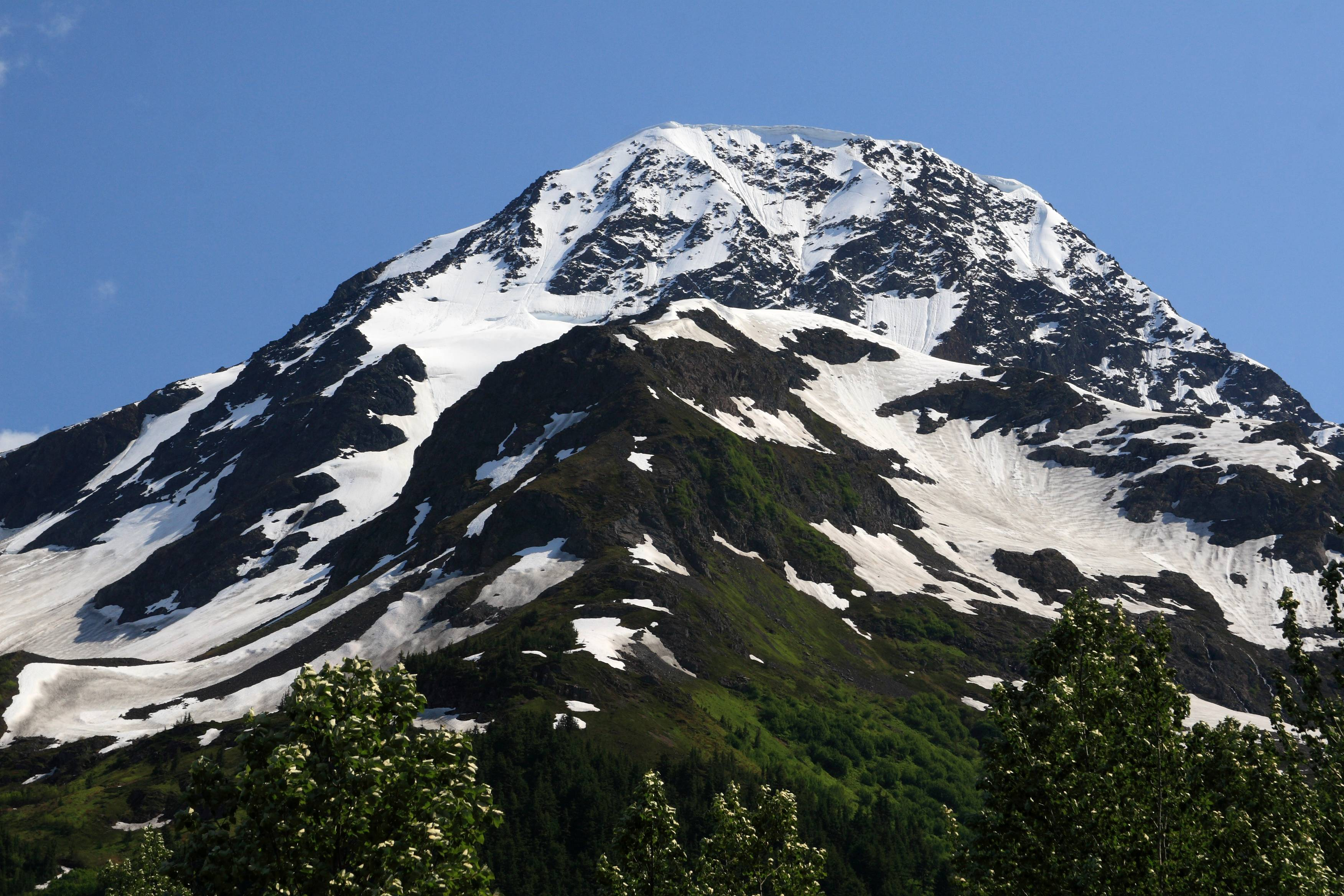 We took this hike into the Twentymile Creek wilderness in June 2009. The trail is part of the Upper Winner Creek trail. The trail head is behind the Alyeska Hotel near Girdwood, Alaska, about 30 miles south of Anchorage. The start of the trail is over boardwalk and nice wide path. At a trail junction a left turn takes you to the lovely Winner Creek Gorge while a right turn leads to the Upper Winner Creek trail which somewhere turns into the Twentymile Creek wilderness - there are no signs so we never knew where we were. The Upper Winner Creek trail is in good shape and fairly well marked and maintained, but there are several creeks to ford. We went in about 5 miles, entering a nice valley, the trail high above a creek, then crossing some rock fields, ending at a very nice waterfall. The trail continues to a pass but we were all satisfied and turned back. Very nice hike but this is prime bear country, so be prepared. Enjoy.